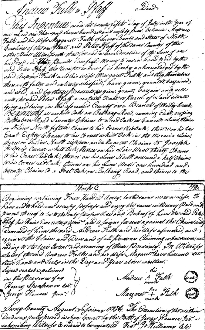 This is the deed detailing the land granted to Peter Pfaff by Andrew Fulk in 1784. This land, on the Muddy Creek, would become Pfafftown.